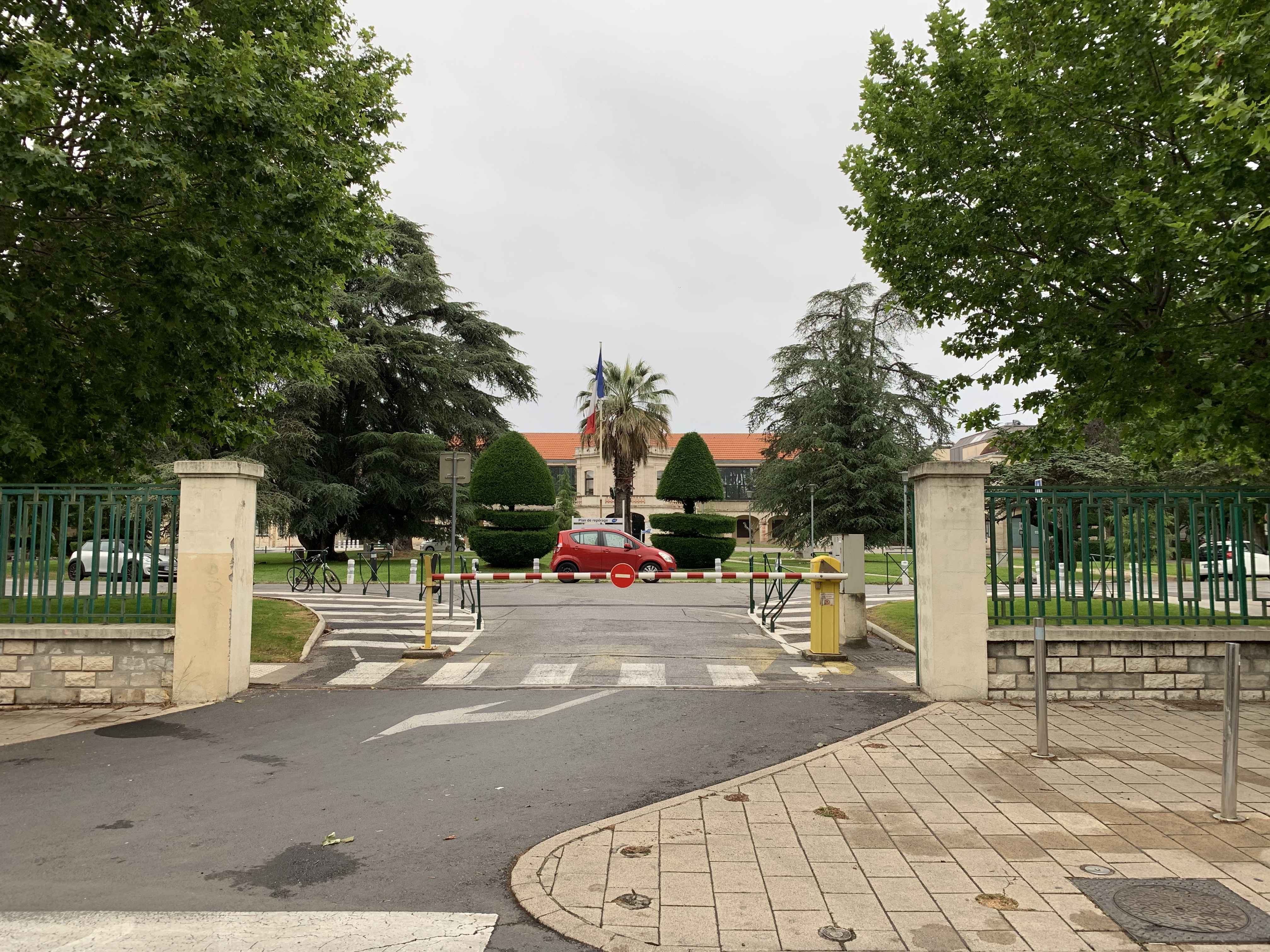 View of one of the St. Eloi Hospital exits, facing the main building, from Avenue Émile Bertin-Sans in Montpellier, France.